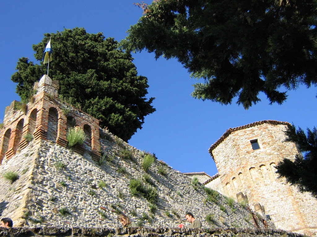 Template:Ot